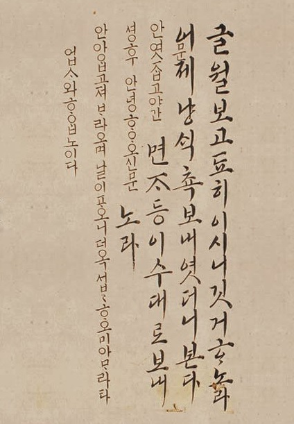 A letter of King Hyojong.